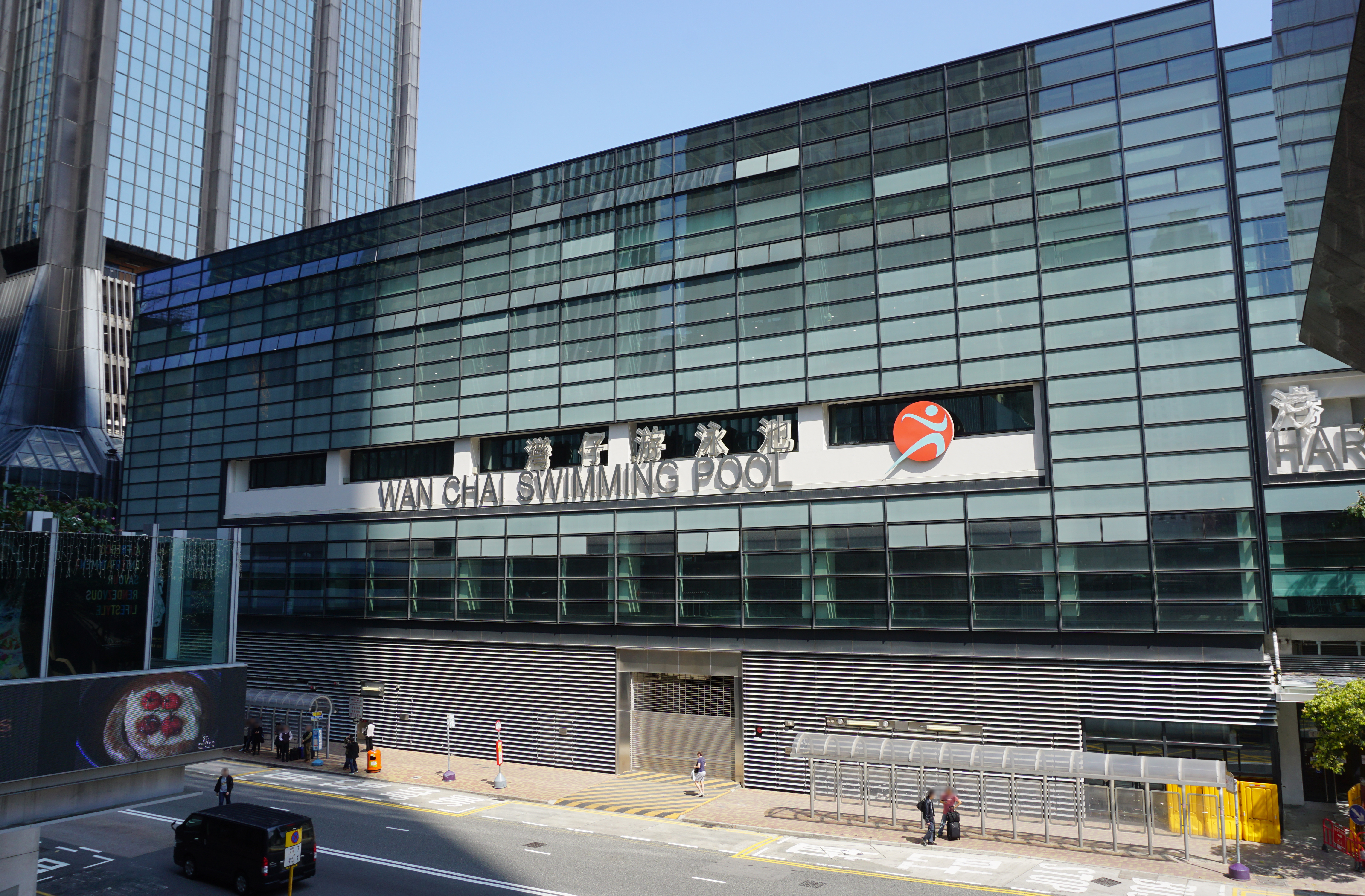 Swimming Pool in Wan Chai, Hong Kong.